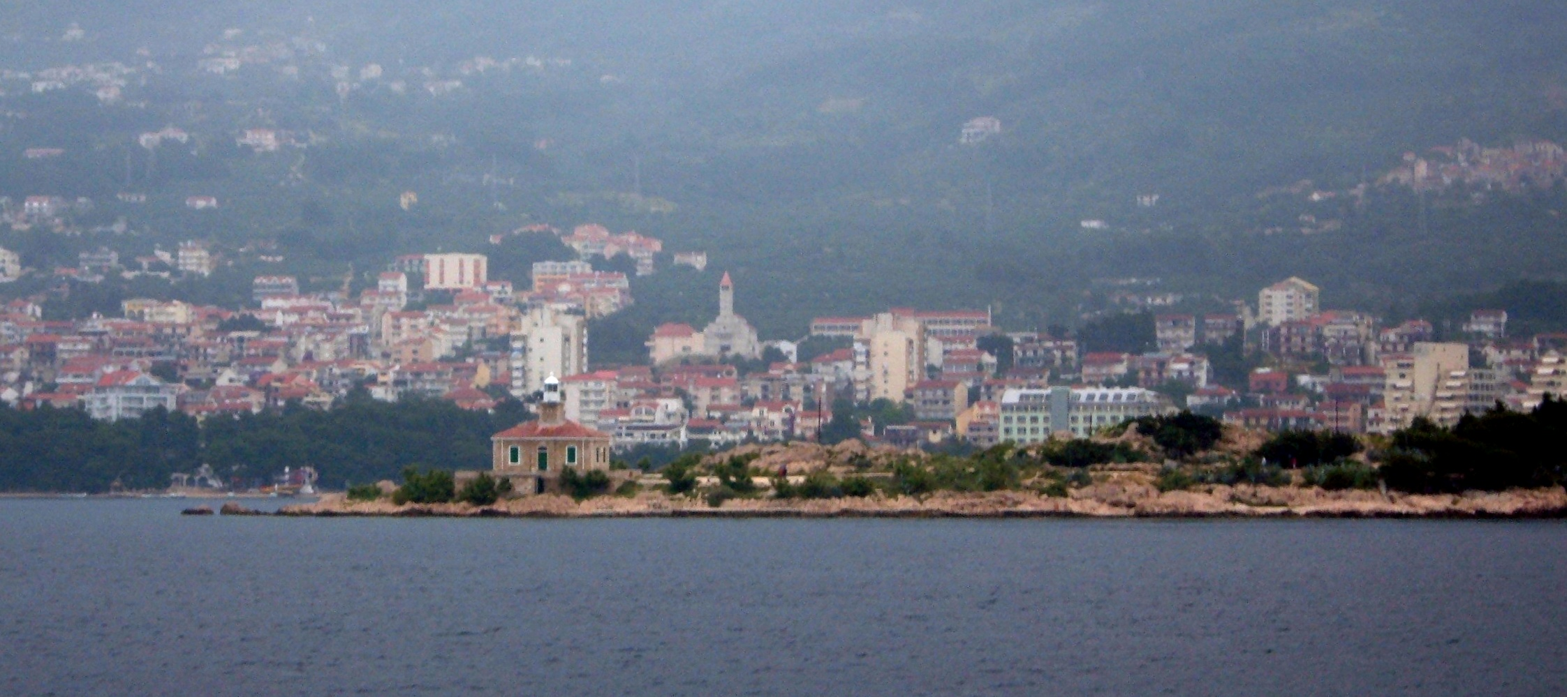 Makarska with Sv. Petar in the foreground. View from boat.